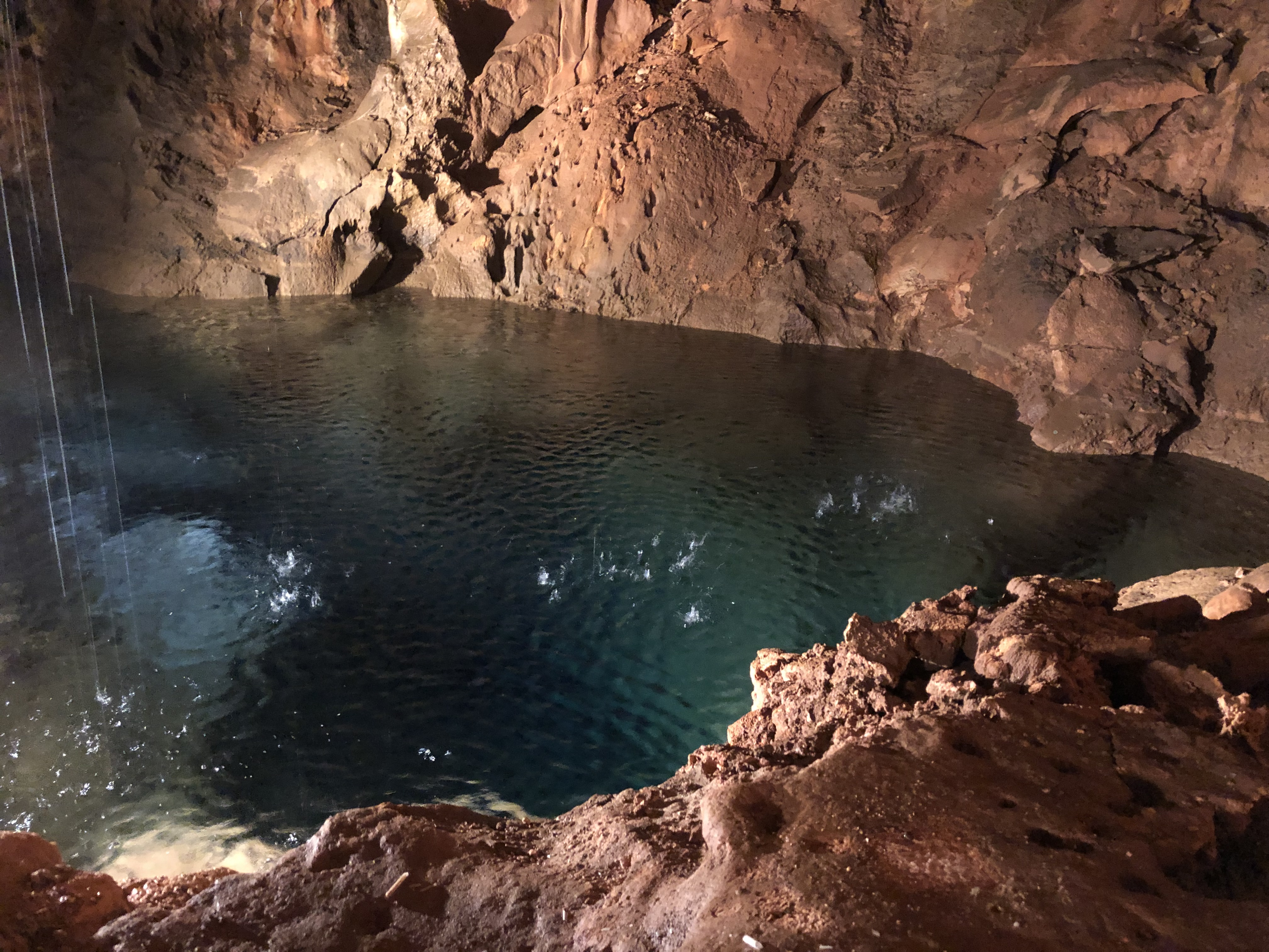 A 12m deep well located in the Marble hall.